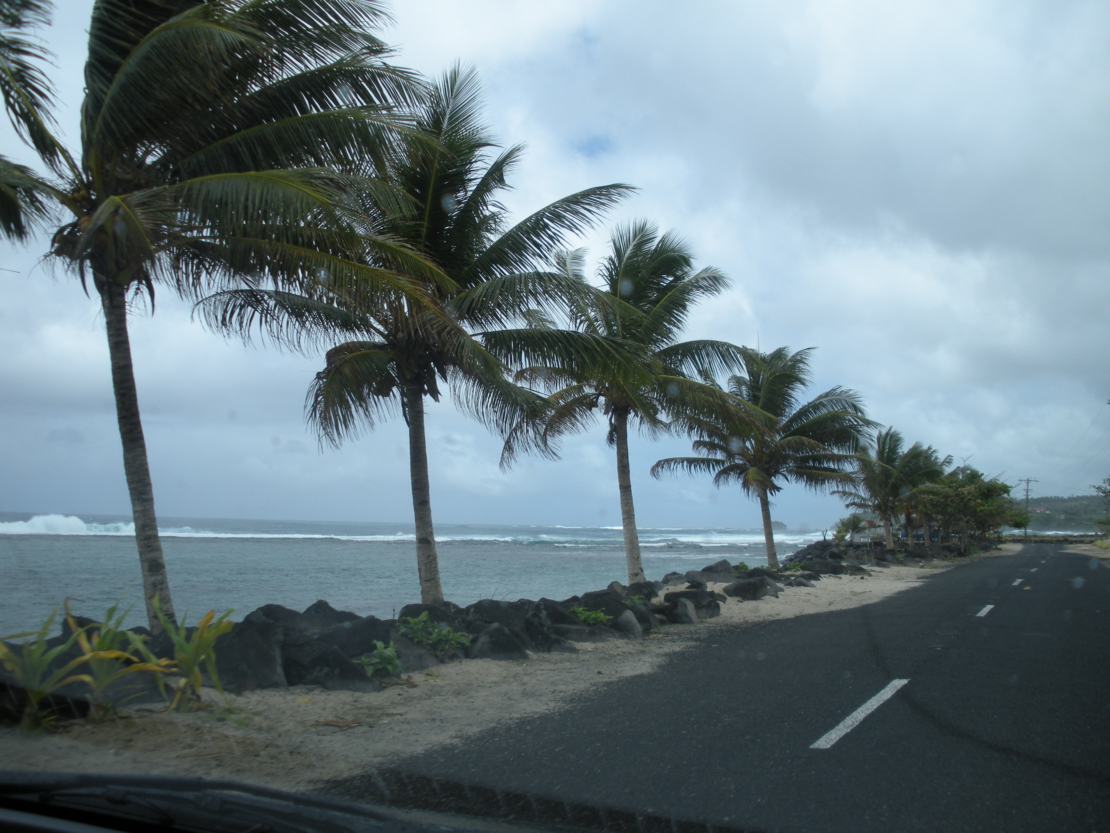 Driving on Samoa's coastal road, main island highway.